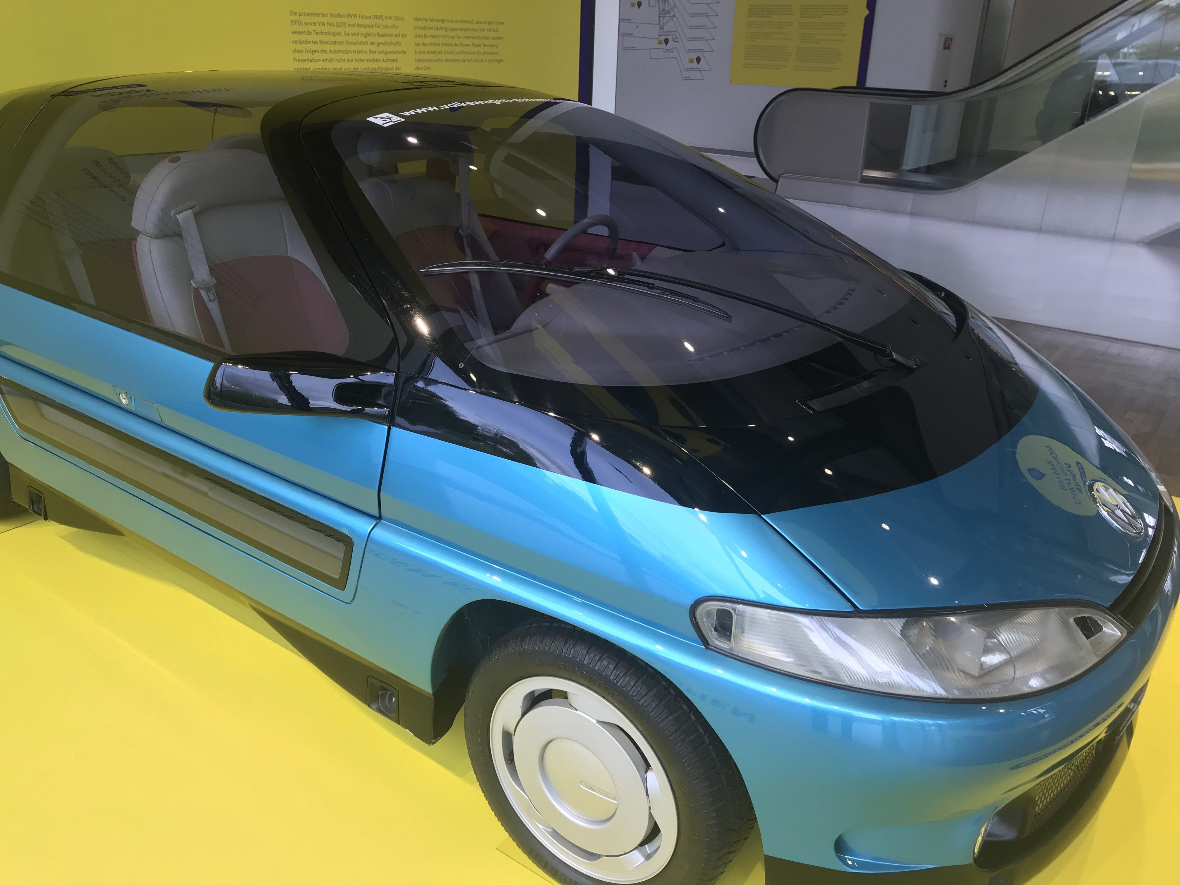 Exterior of Volkswagen Futura